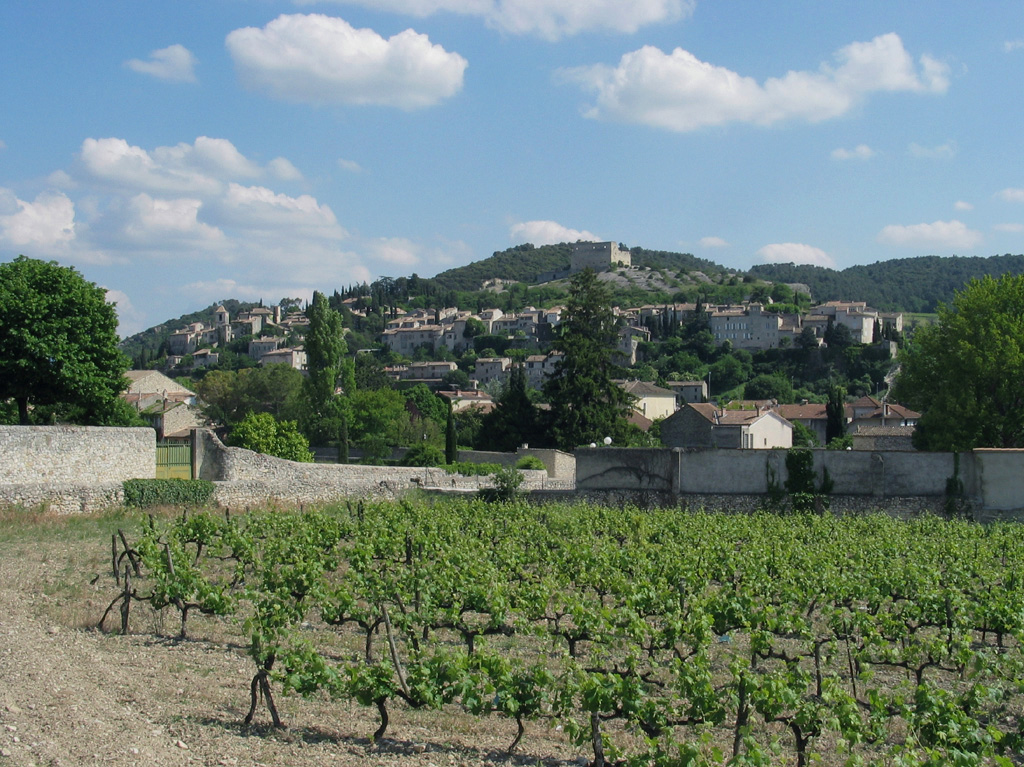 Village of Vaison-la-Romaine, located in the Departement of Vaucluse/France, old town and castle